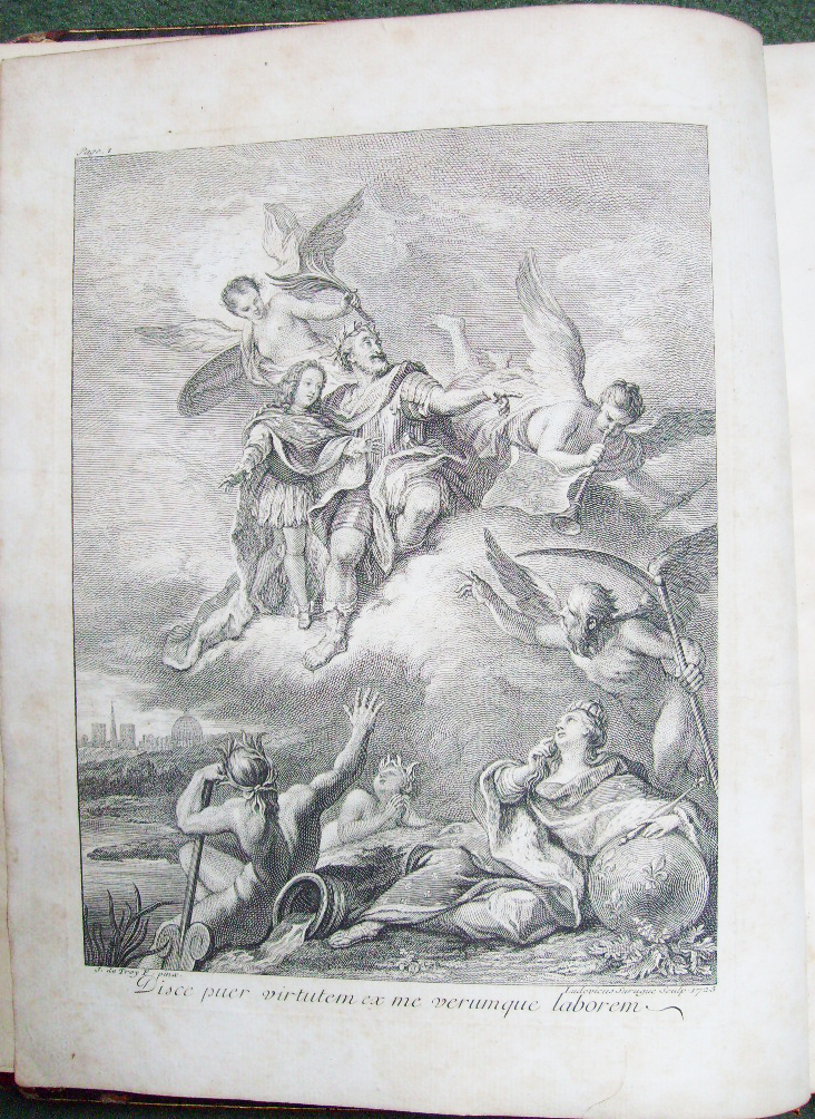 La Henriade de Voltaire à Londres en 1728